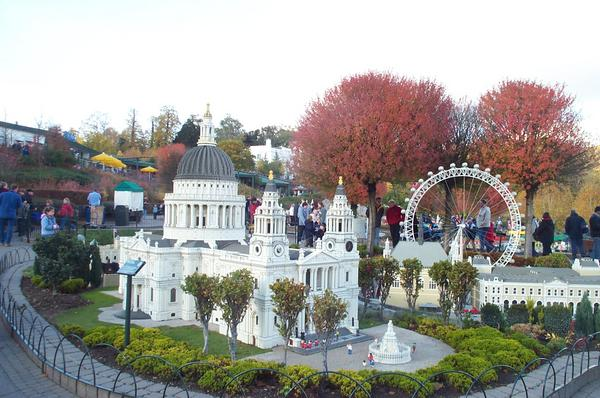 Model of St Paul's Cathedral in London, as seen in Legoland Windsor